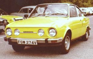 Skoda 110R "Coupe", photographed by author in 1980 My car, my camera, absolutely no copyright issues BScar23625 08:18, 4 March 2007 (UTC)